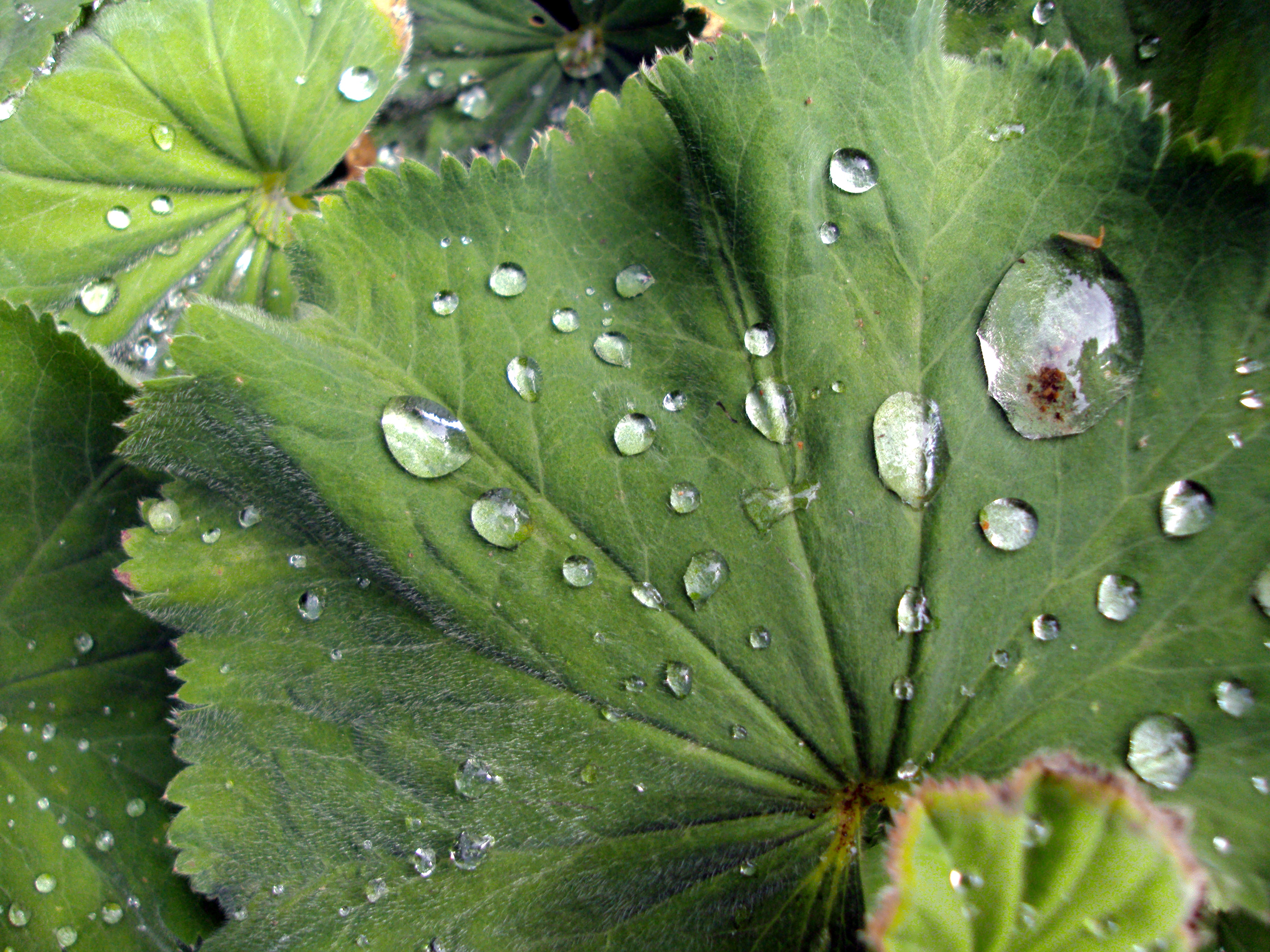 Dew drops on a leaf.